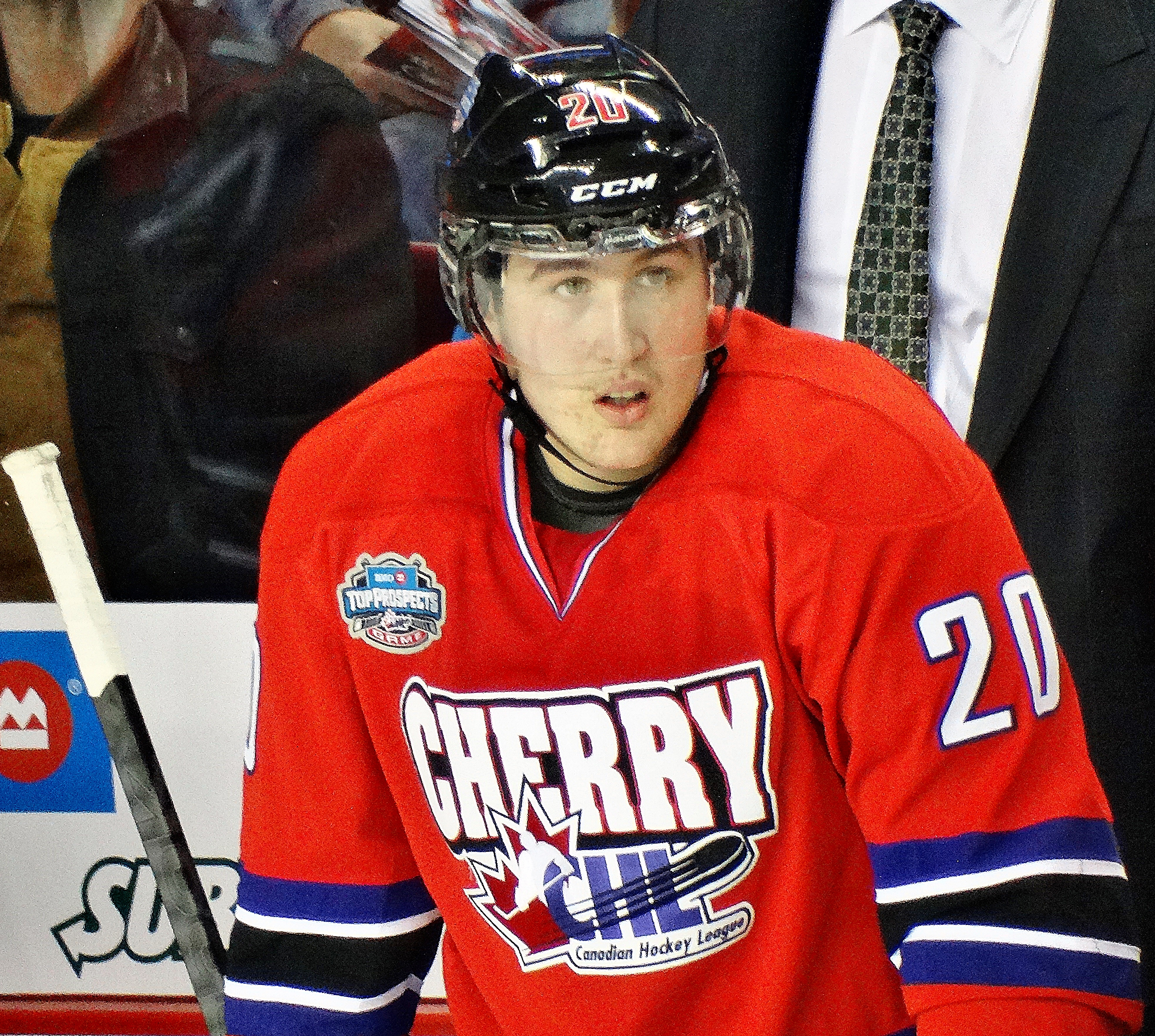 Nick Ritchie, Canadian ice hockey winger at the CHL / NHL Top Prospects Game